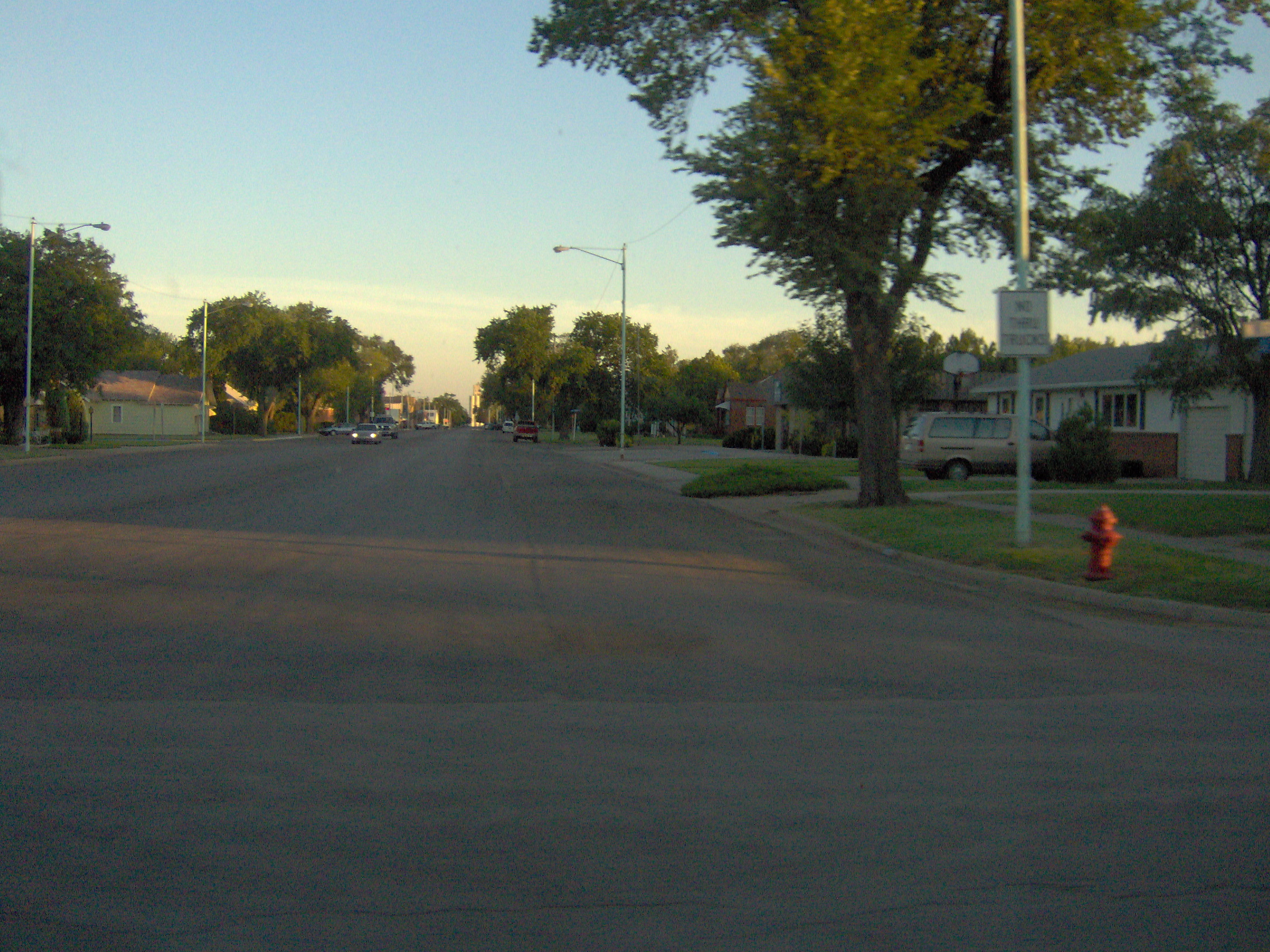 Intersection in Ashland in far southwestern Kansas. Picture taken by Nyttend on 21 July 2006.